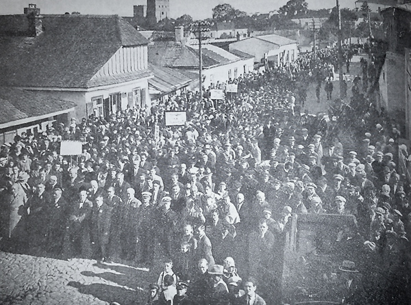 Demonstration